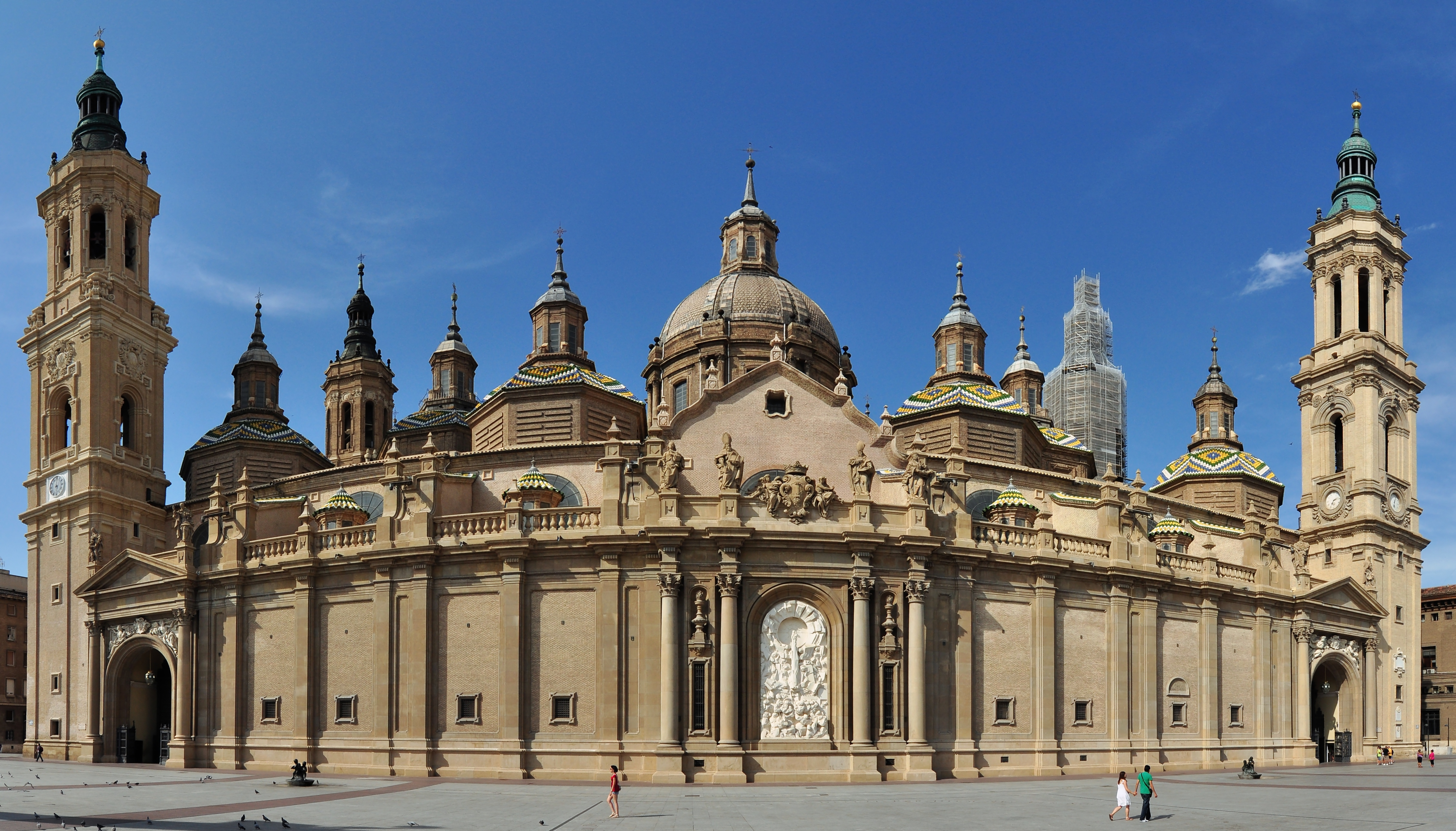 Basilica-Cathedral of Our Lady of the Pillar, wideangle panoramic view of the front.